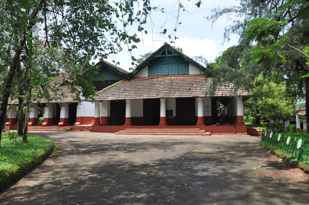 Cms college Kottayam - old building